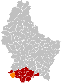 Own edit of Kanton Esch-sur-AlzetteLocatie.png